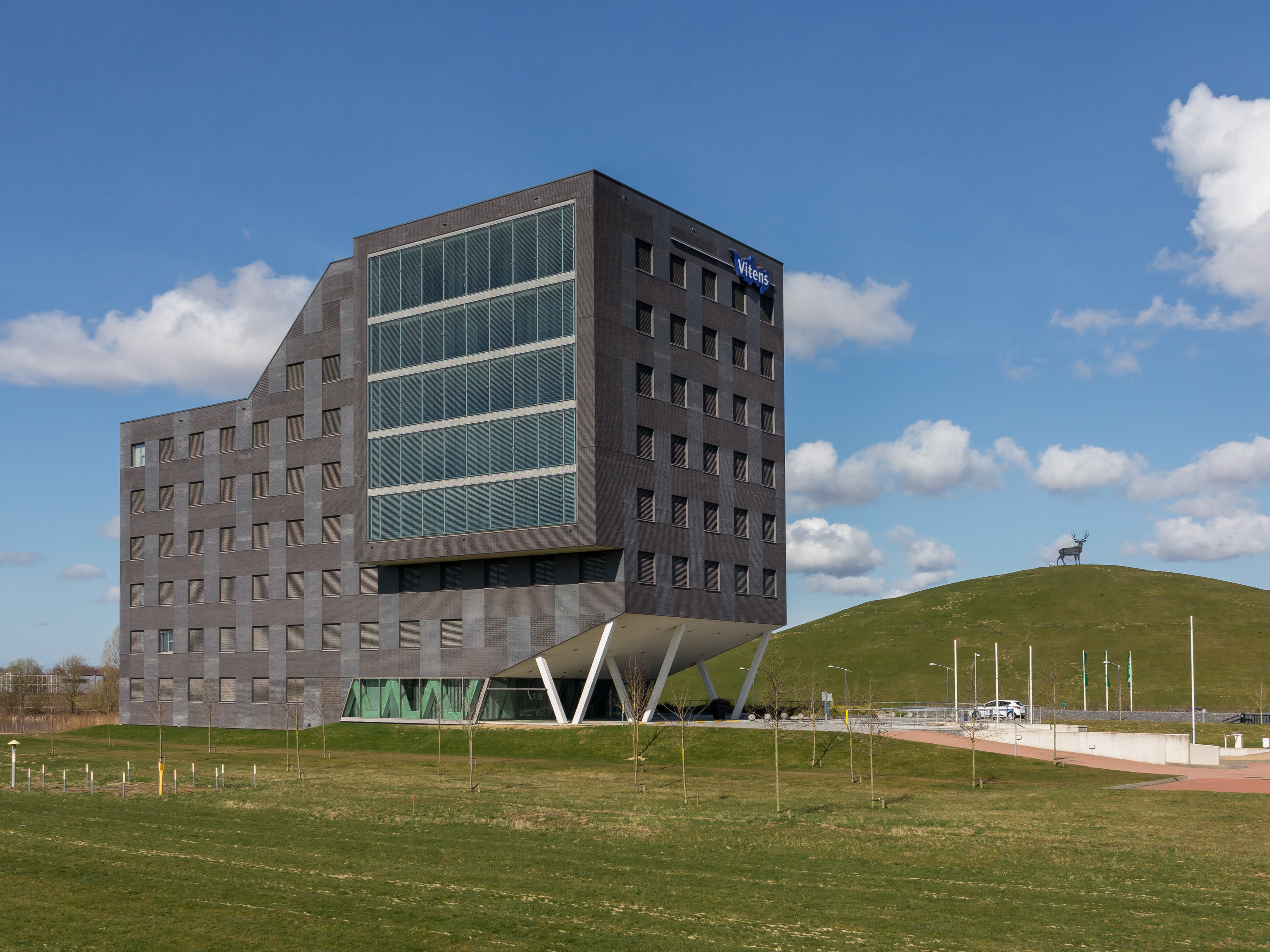 Arnhem, office building water industry Vitens